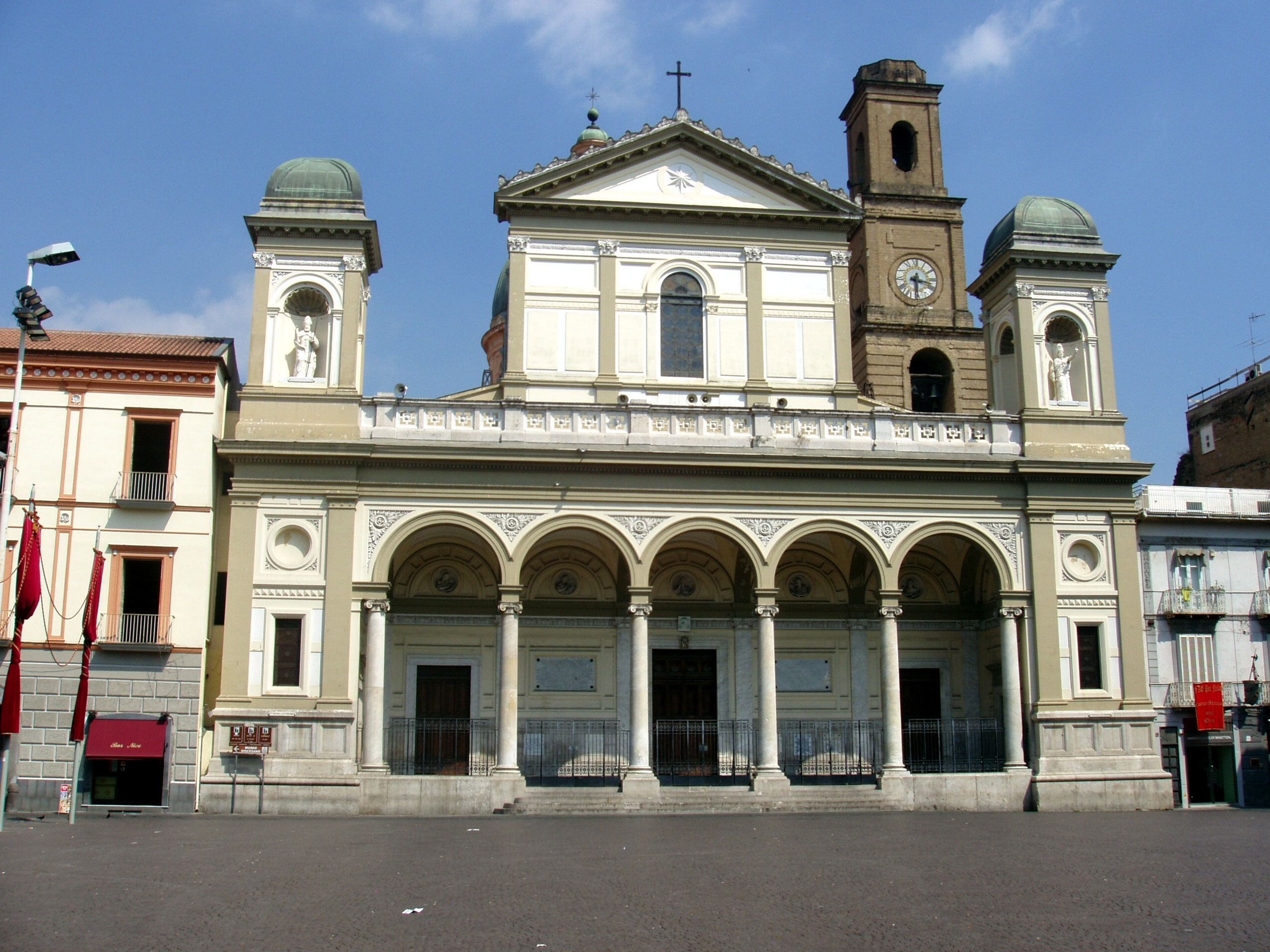 Nola Duomo Church in Nola, Italy...Town Square